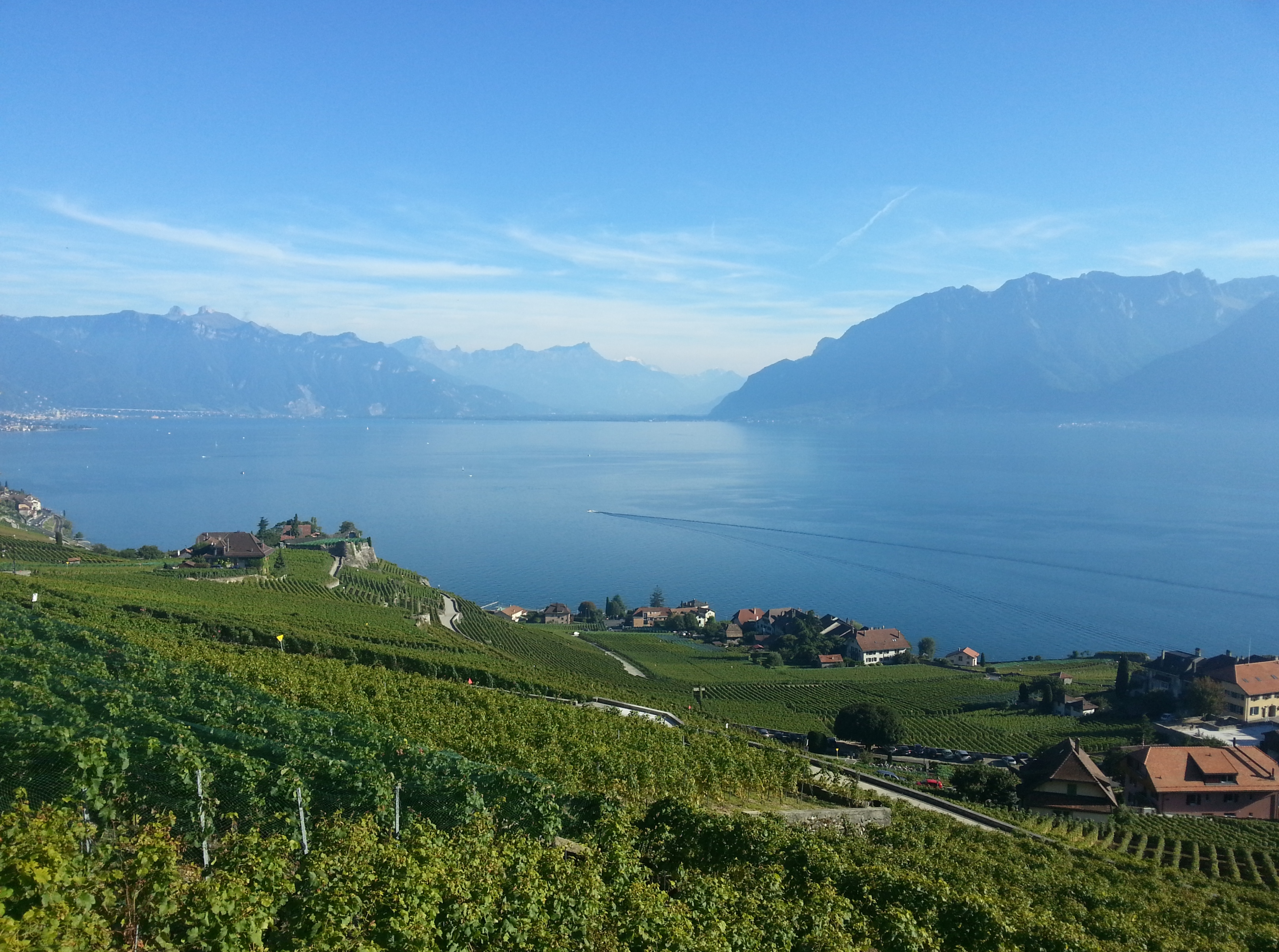 View of the Eastern part of the Leman lake (i.e. Lake of Geneva) from the UNESCO world's heritage Lavaux. Part of Switzerland's diverse scenery.